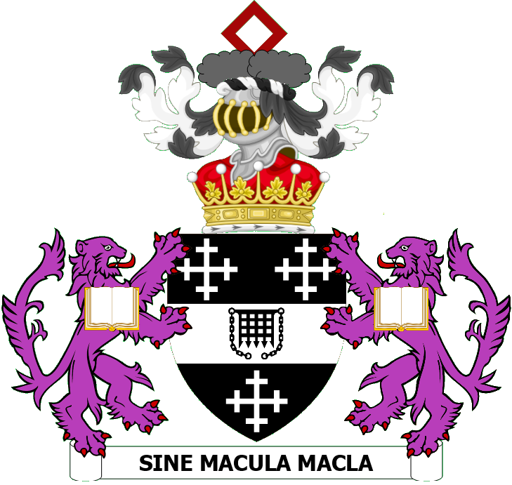 The armorial achievement of The Earl of Oxford & Asquith